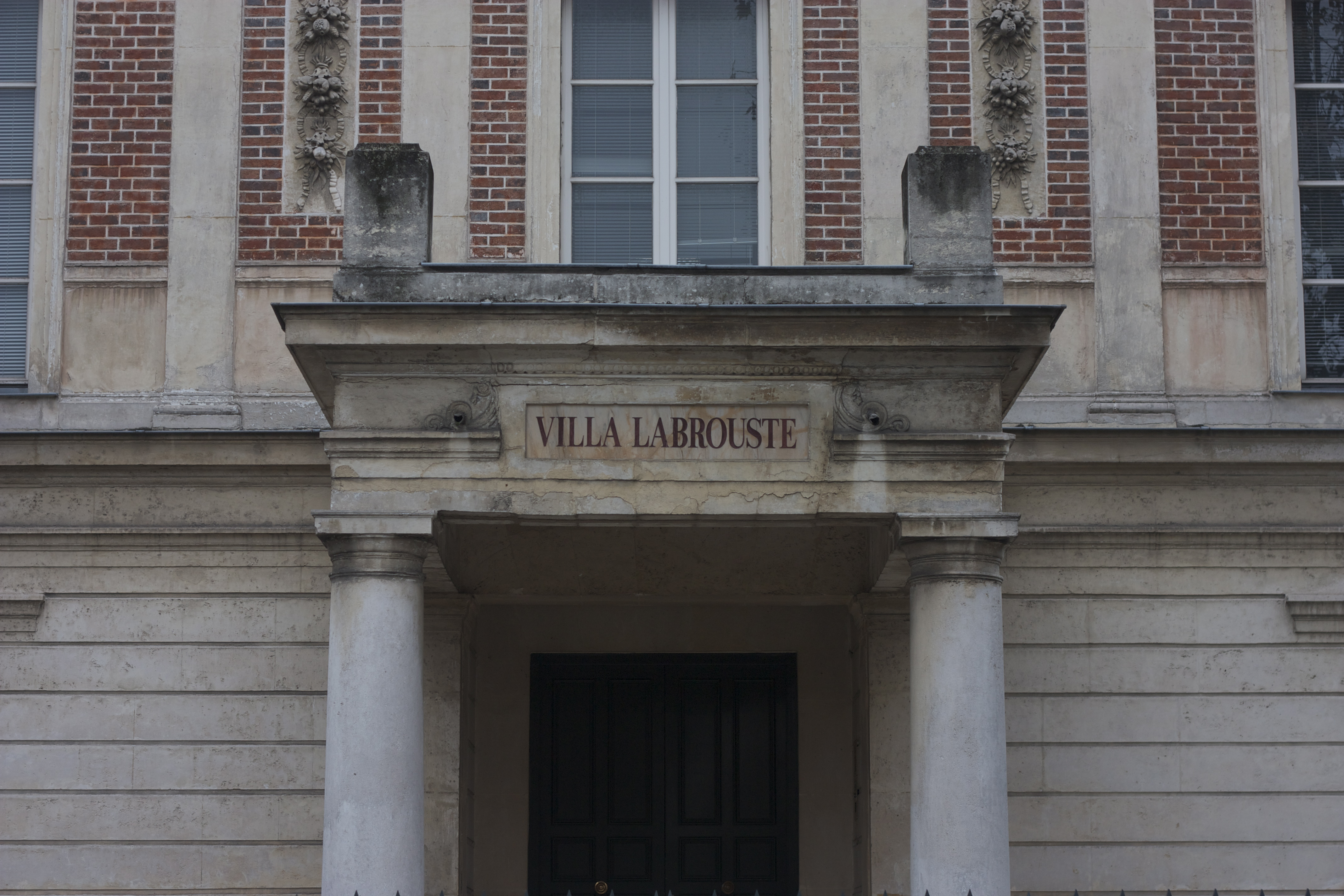 Detail of the entrance of Hôtel Touret (French historical monument) in Neuilly-sur-Seine, France.